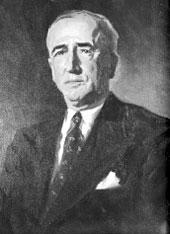 Public domain portrait of U.S. Secretary of State James F. Byrnes, obtained from [1]. Image:JamesFByrnesSoS.jpg